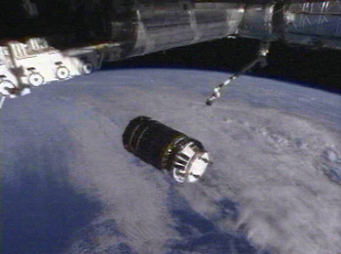 NASA TV screenshot showing HTV-1 as seen from the International Space Station before grappling.